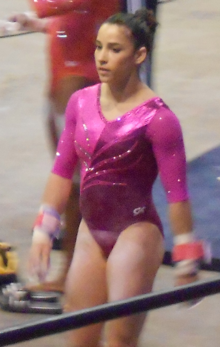 Aly Raisman Secret US Classic